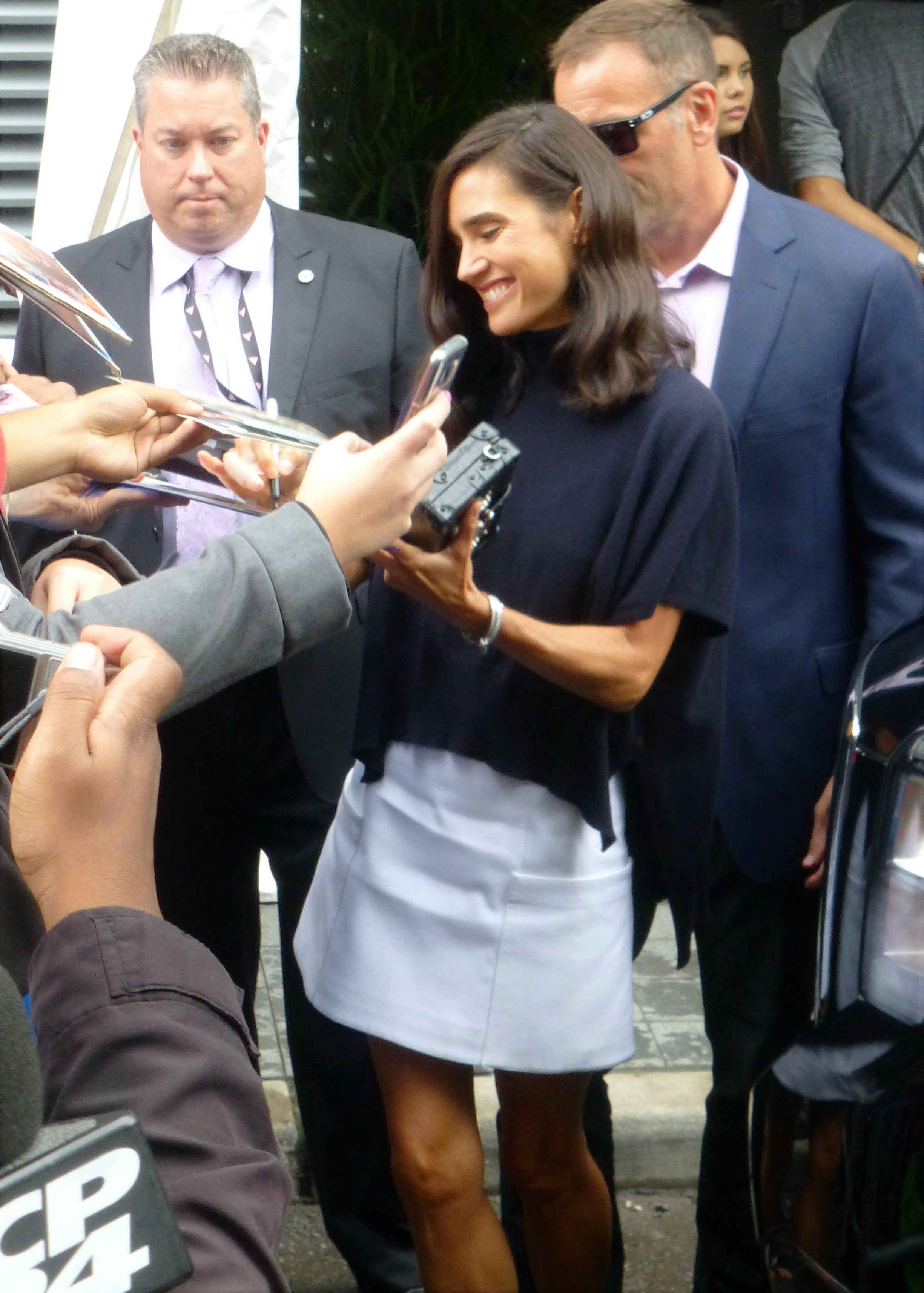 Jennifer Connelly at the press conference of American Pastoral, 2016 Toronto Film Festival